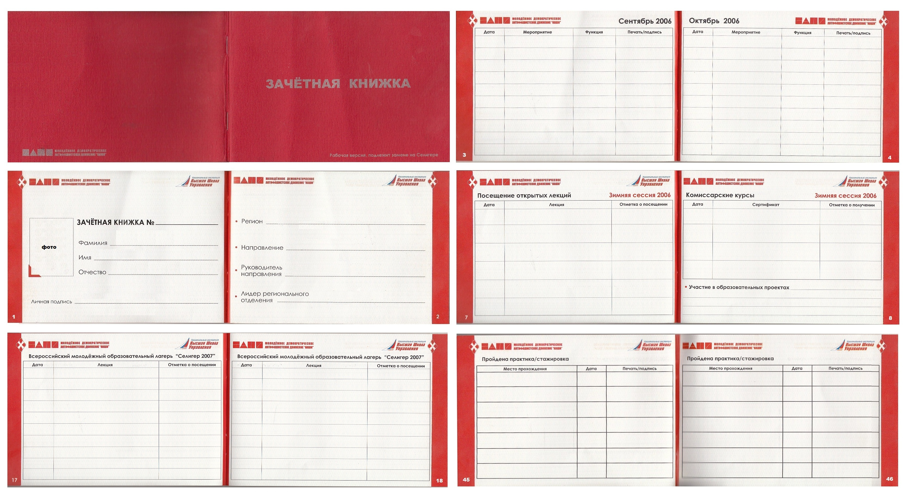 Record-book of the Commissioner and candidates for the Commissioner of the youth movement of NASHI. 48 pages